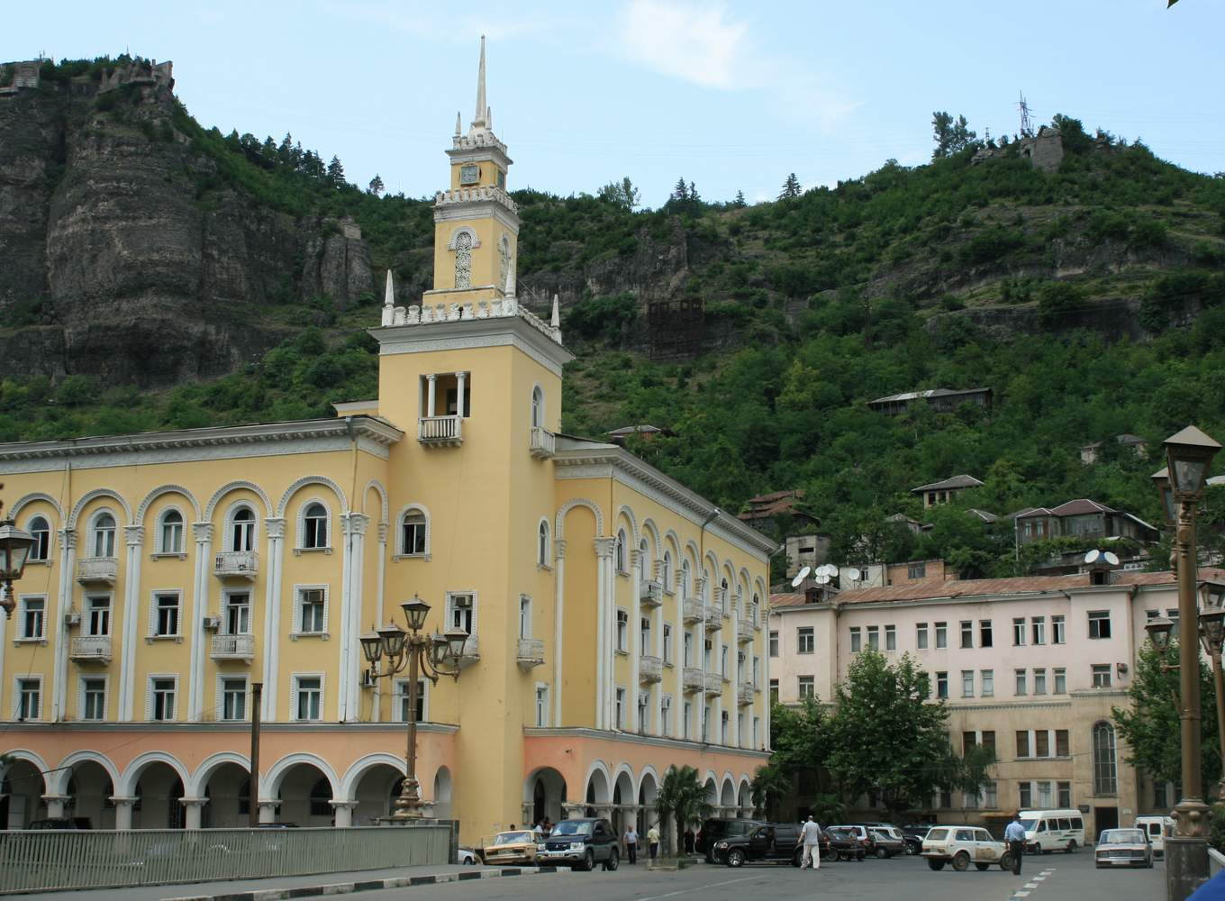 Chiatura. A municipal building